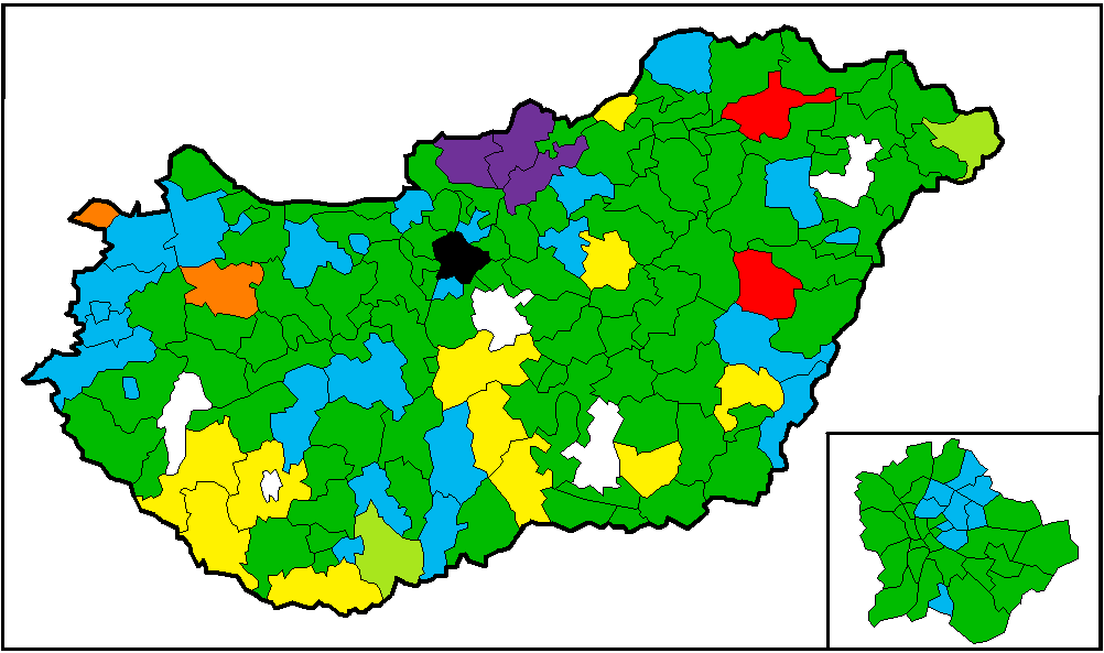 Results the elections in Hungary, 1990 ██ = Alliance of Free Democrats ██ = Hungarian Democratic Forum ██ = Hungarian Socialist Party ██ = Fidesz ██ = Christian Democratic People's Party ██ = Agrárszövetség (Union for Agriculture) ██ = Independent Smallholders, Agrarian Workers and Civic Party ██ = Independent